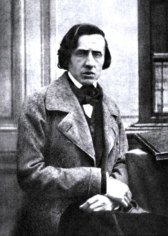 The only known photograph of Frédéric Chopin